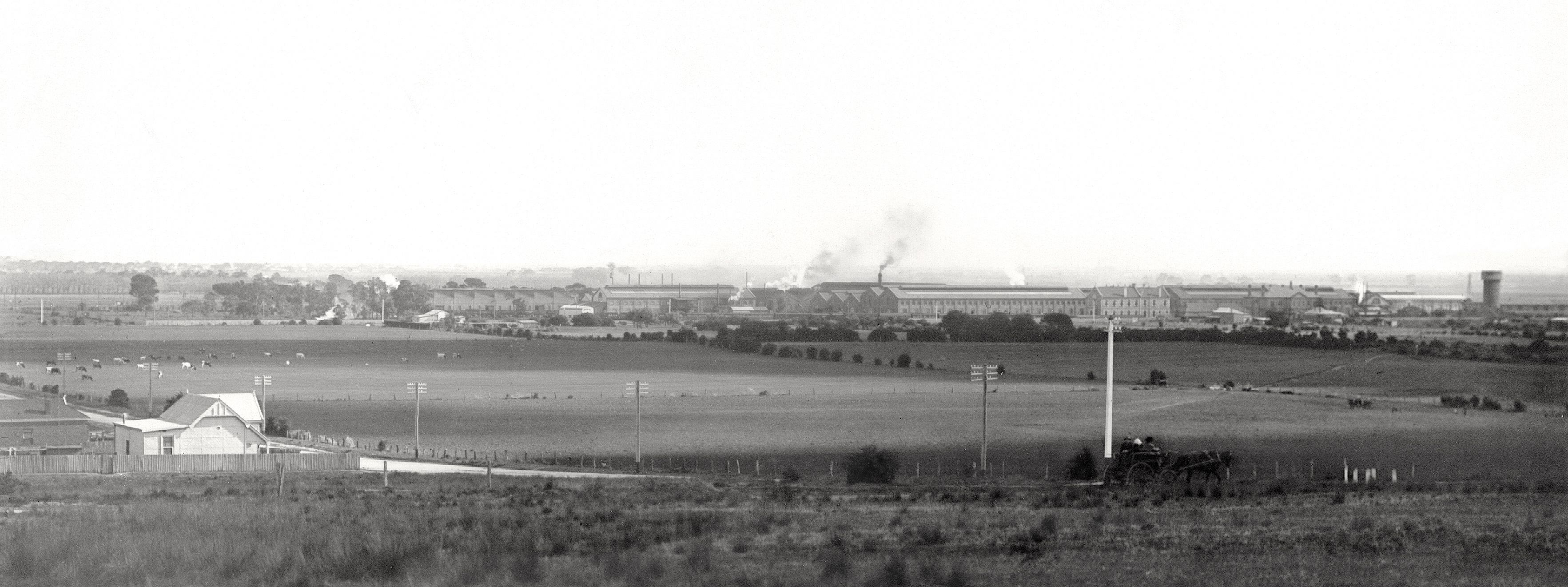 A panoramic view of the South Australian Railways' Islington workshops taken from high ground in the location of Prospect. A four-wheeled horse-drawn vehicle with a driver and two passengers is in the foreground and cattle are grazing in the middle distance. Beyond that is the large complex of workshop buildings where locomotives, rolling stock and tramcars were built and maintained for the railways, and during World War II armaments were produced. On the back of the photograph is written "Islington Railway Workshops before 1927 (1915-27)".